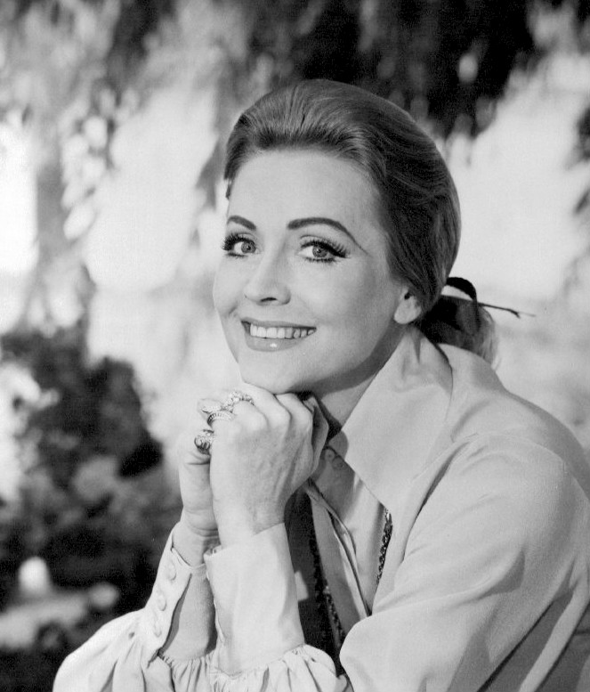 Photo of Anne Jeffreys as Sybil Van Lowreen in the television program, The Delphi Bureau.